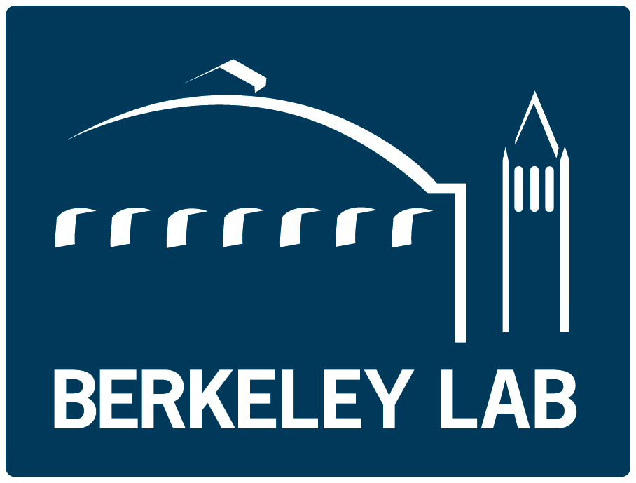 Logo for Lawrence Berkeley National Laboratory (Berkeley Lab)